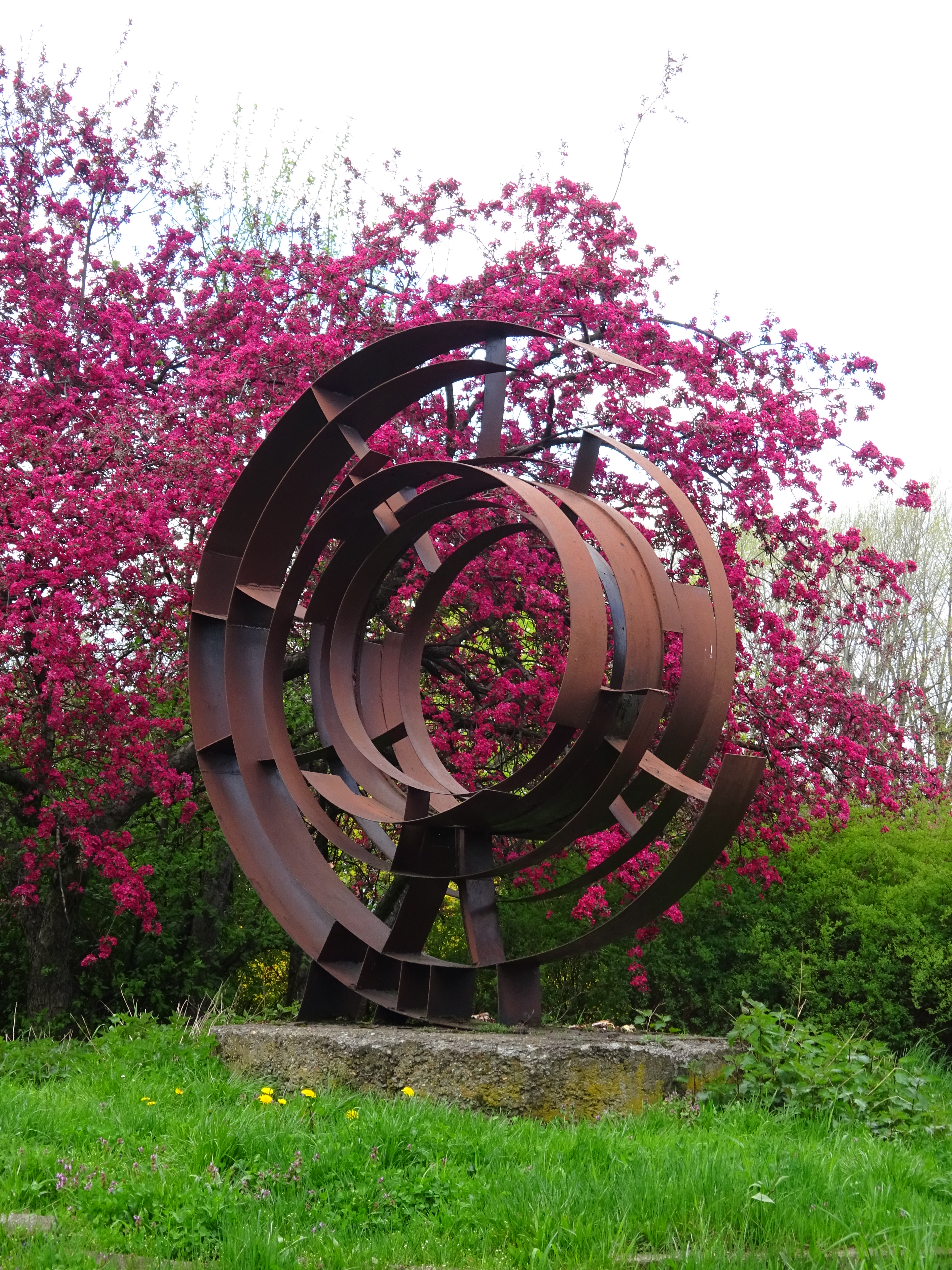 Sculpture The Cosmic Spiral (pl. Spirala kosmiczna). Sculptor: Antoni Hajdecki, 1974, metal. Tysiąclecia Estate in Kraków, Poland, nearby Łęczycka Street.